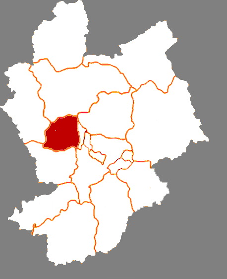 Location of Wanquan county in Zhangjiakou City, China